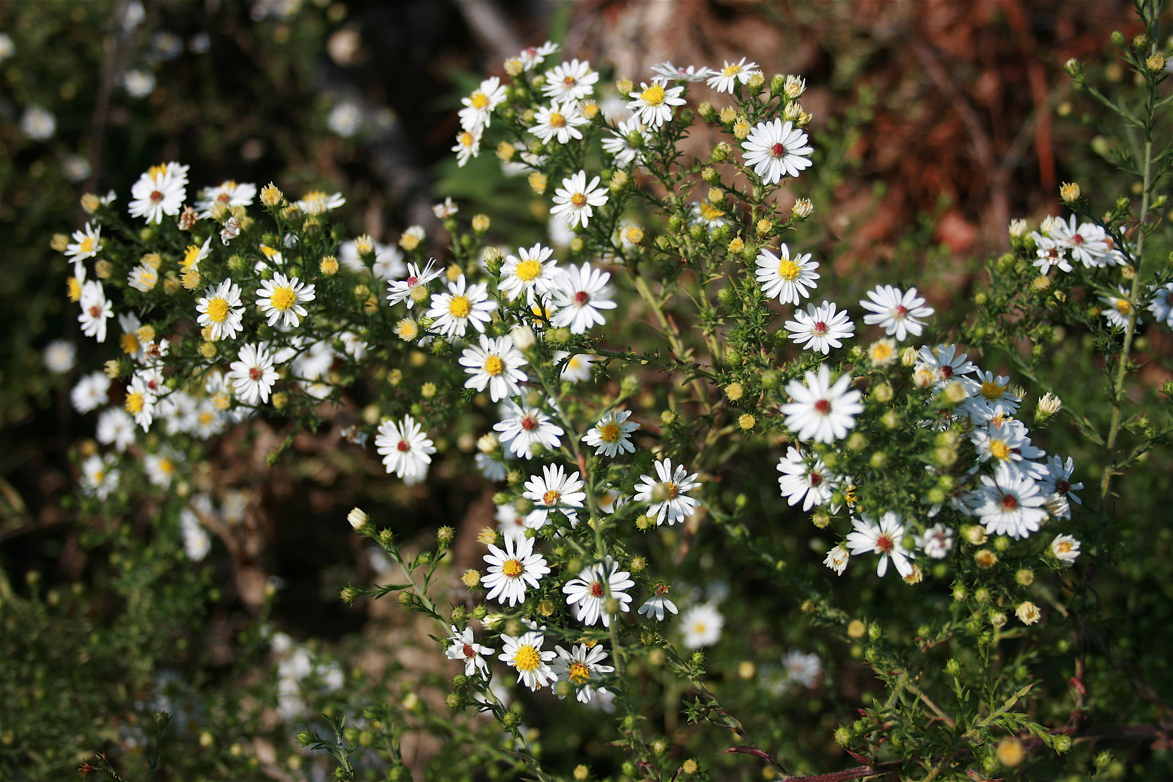 Heath Aster (Symphyotrichum ericoides) in Portage, MI.